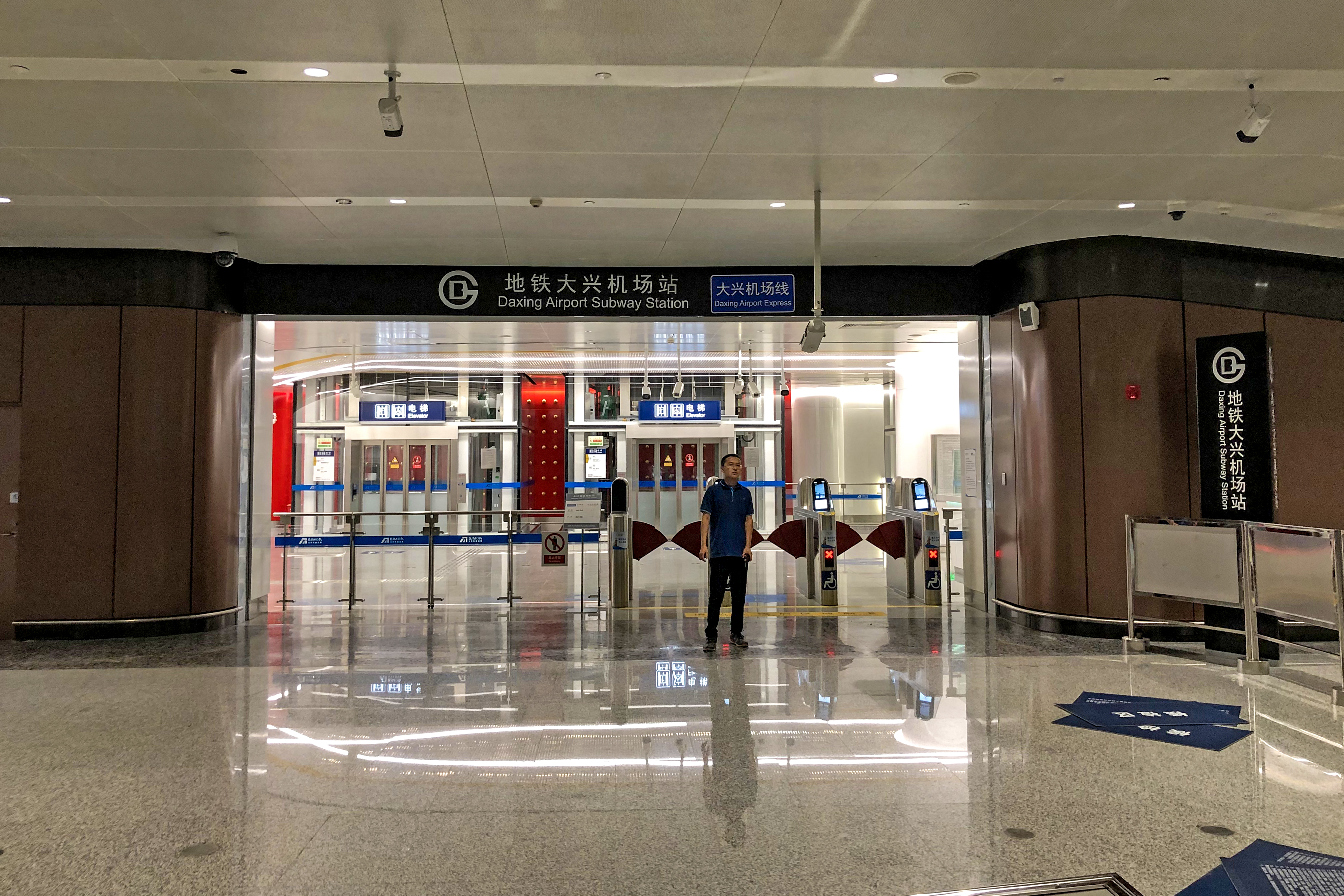 Red pillars...